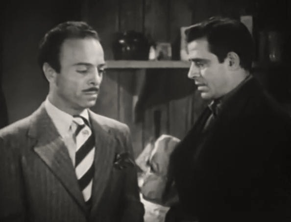 Jay Novello (left) & Jack La Rue in Swamp Woman - cropped screenshot